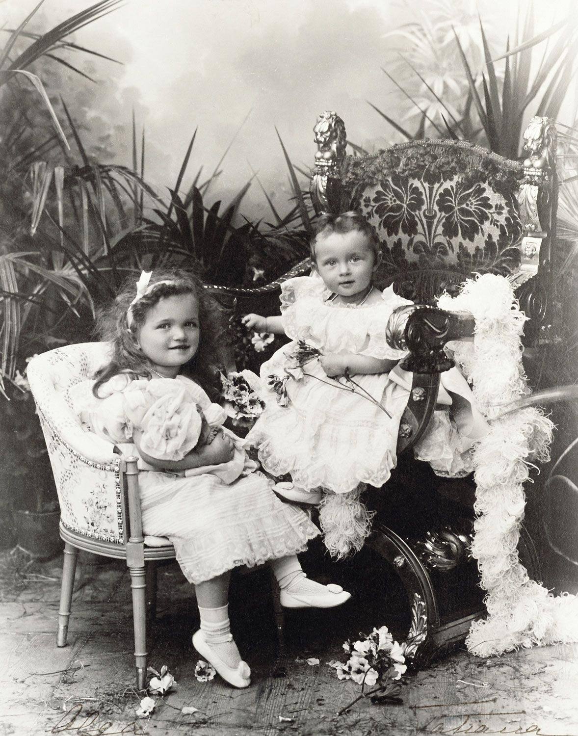 Grand Duchesses Olga and Tatiana of Russia as toddlers